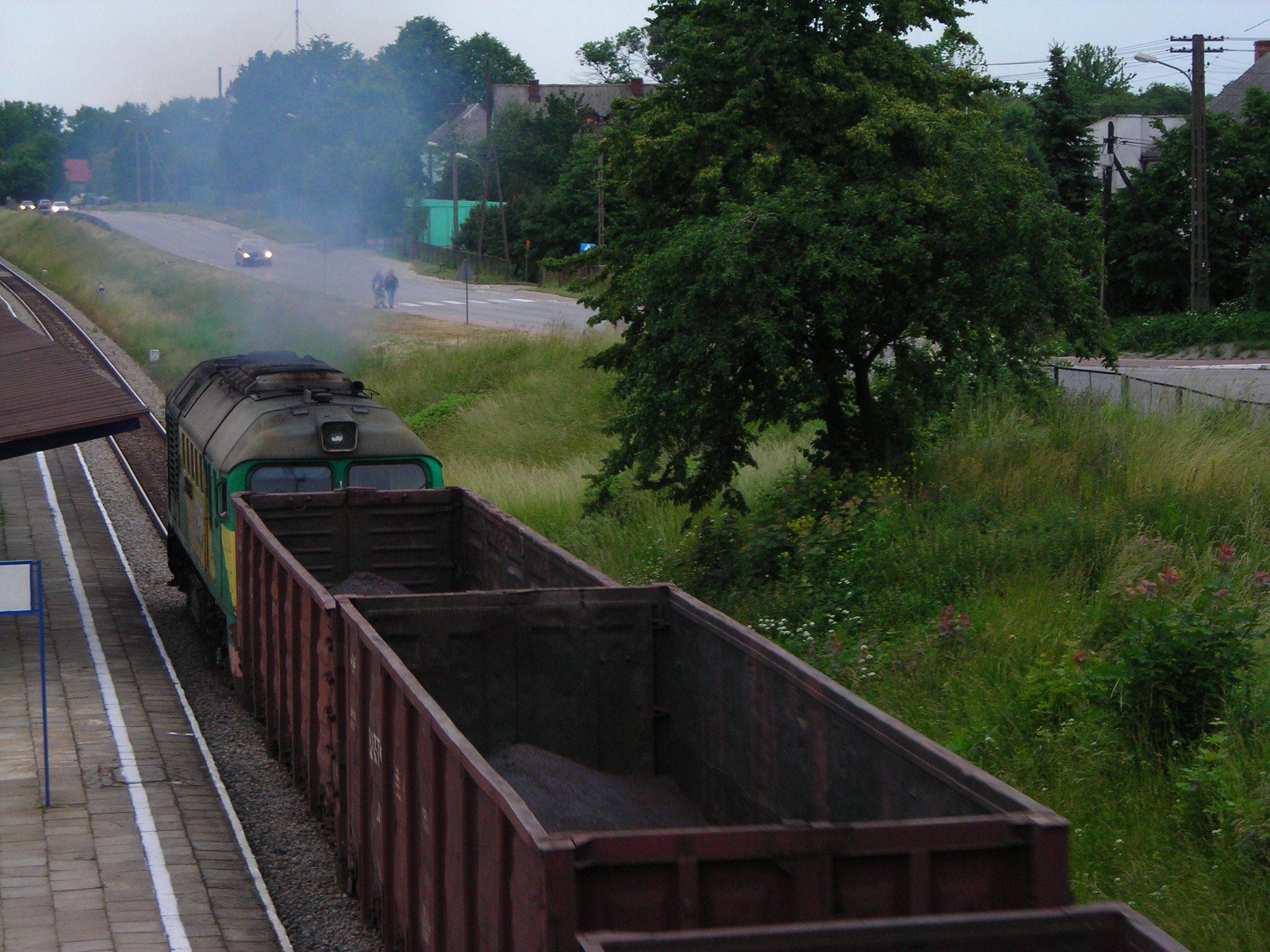 An LHS ST44 passing through Sędziszów train station (Poland)